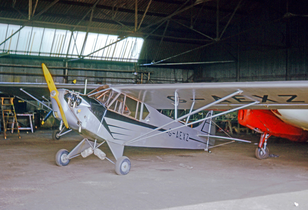 1938 built Piper J-2 Cub G-AEXZ at Fair Oaks Aerodrome England in 1965